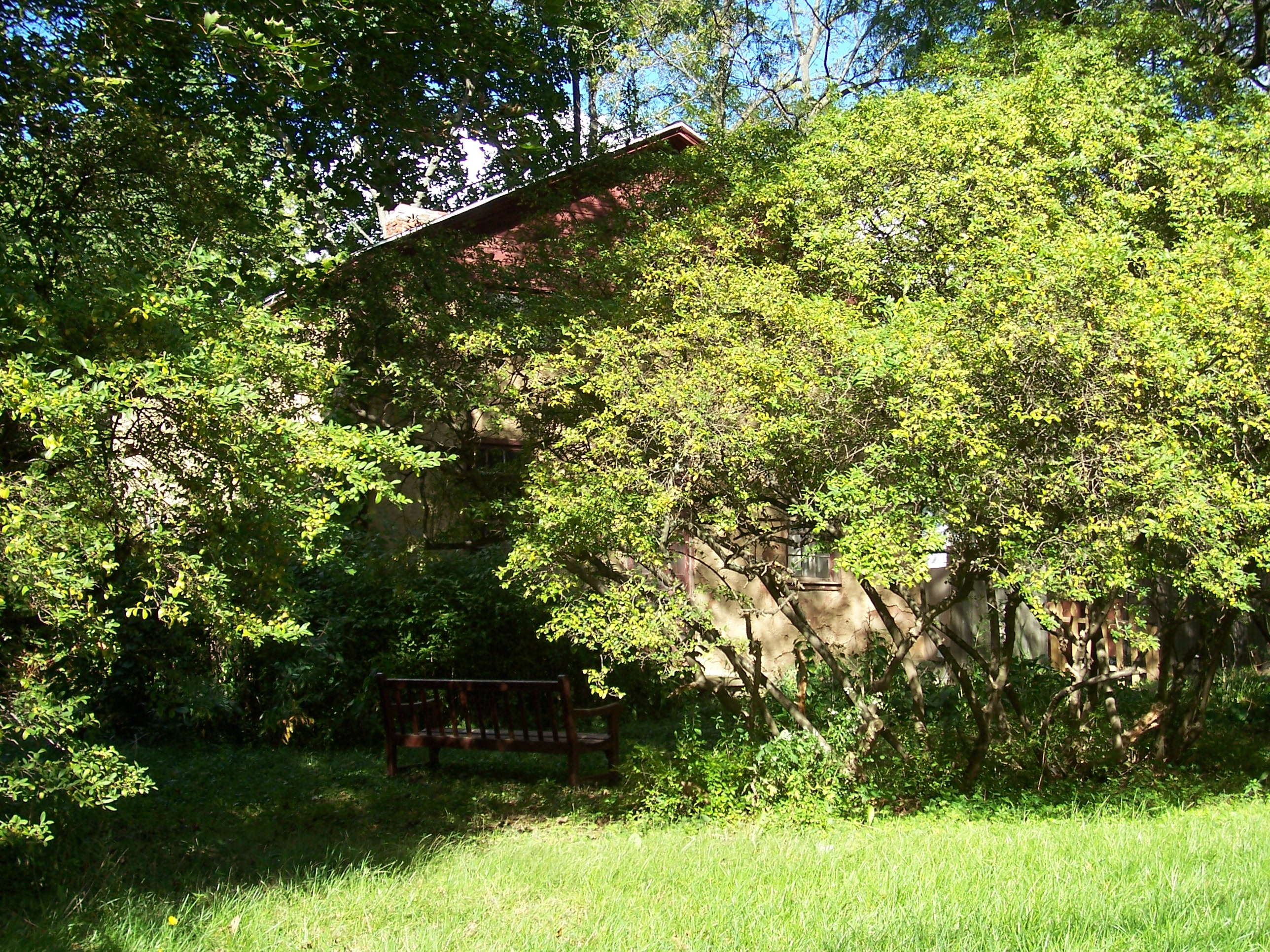 The Mud House in Penfield, New York